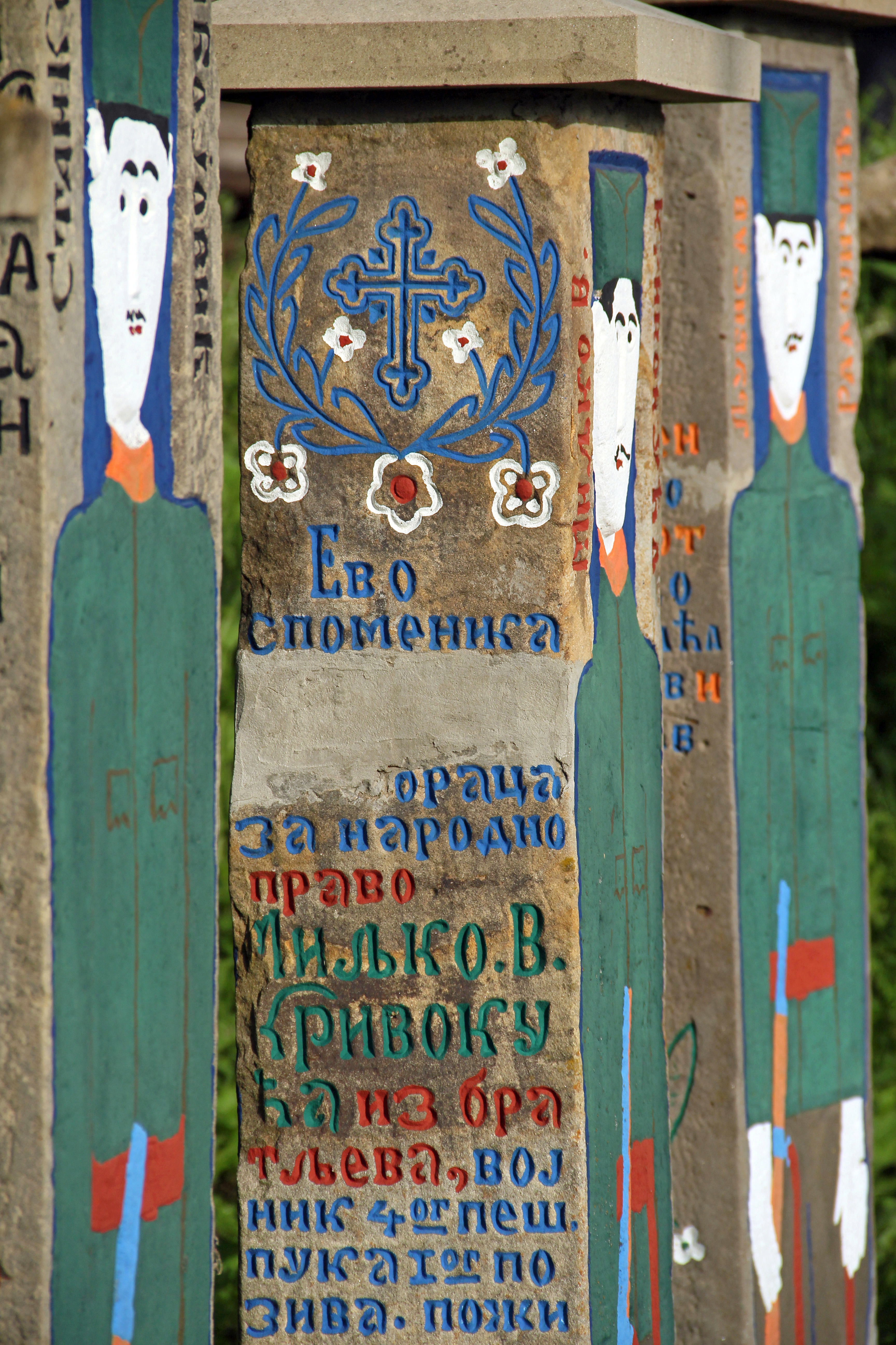 Group of roadside tombstones in the village of Bratljevo (municipality of Ivanjica), Serbia.